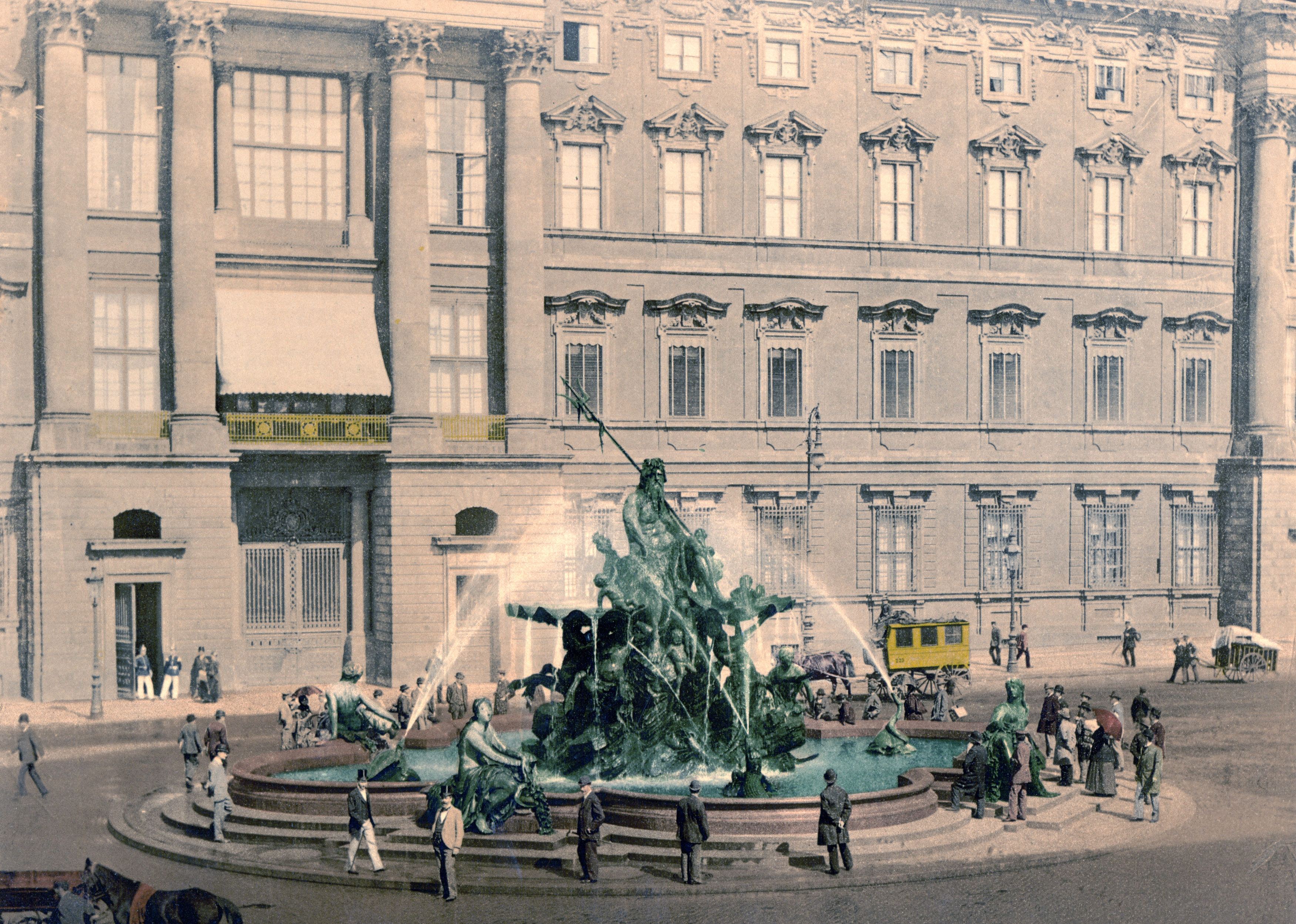 Berlin Neptunbrunnen - old location in front of the Berliner Schloss